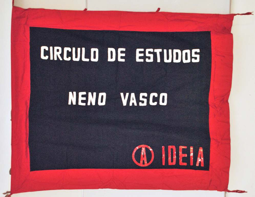 Bandeira de lã preta debruada a seda vermelha "Circulo de Estudos Neno Vasco - A Idéia"